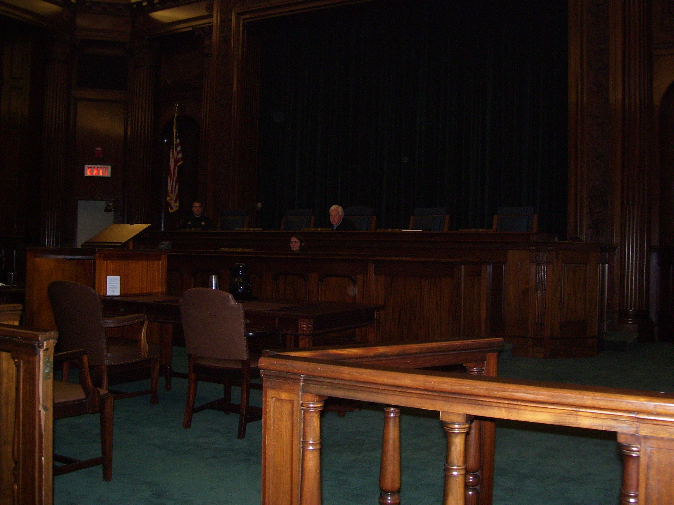 My 2008 photo of the Rhode Island Supreme Court and the bar (railing) in the front of the Court. Justice Suttell is presiding at the attorney swearing-in ceremony.